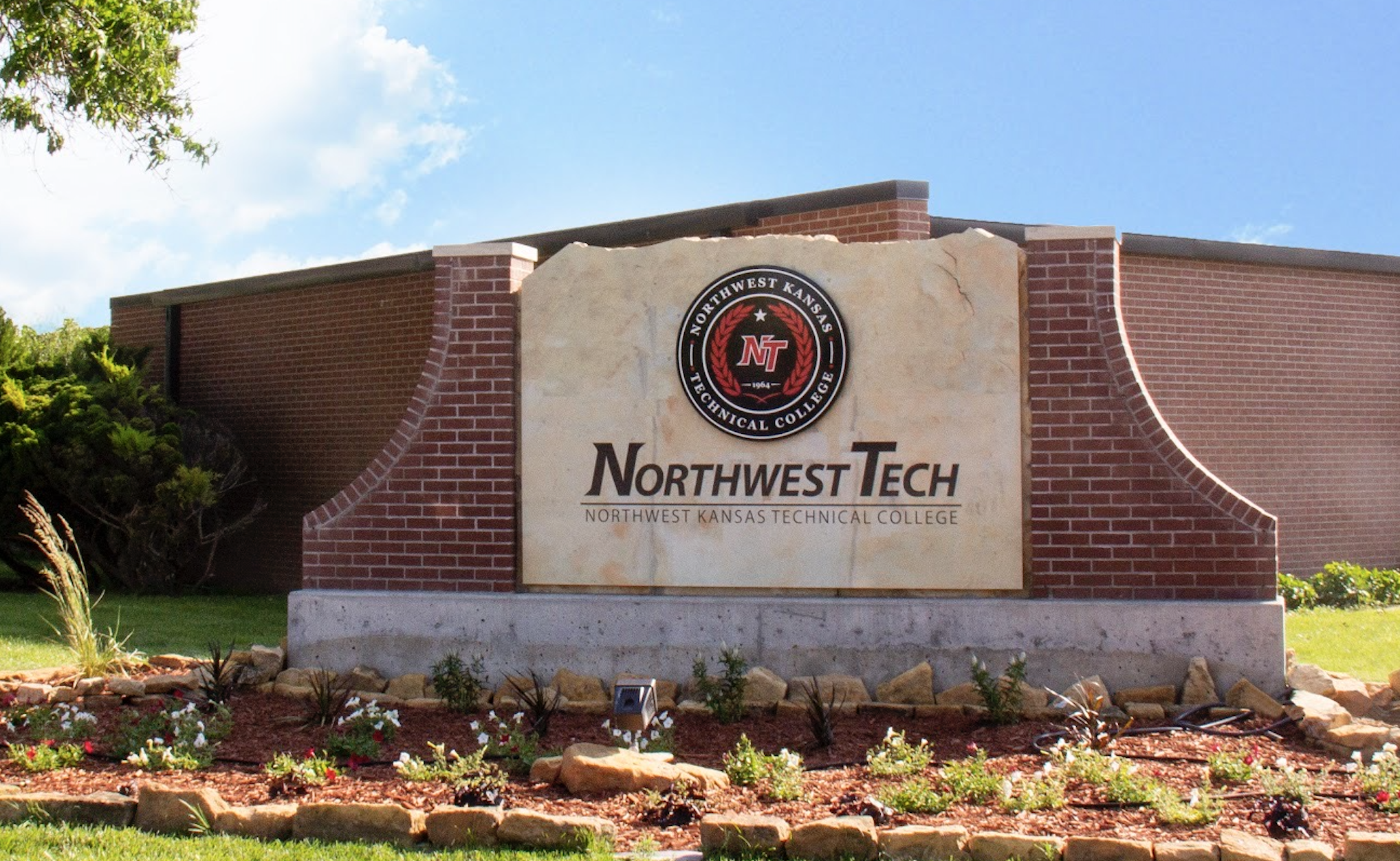 Northwest Kansas Technical College Front Sign